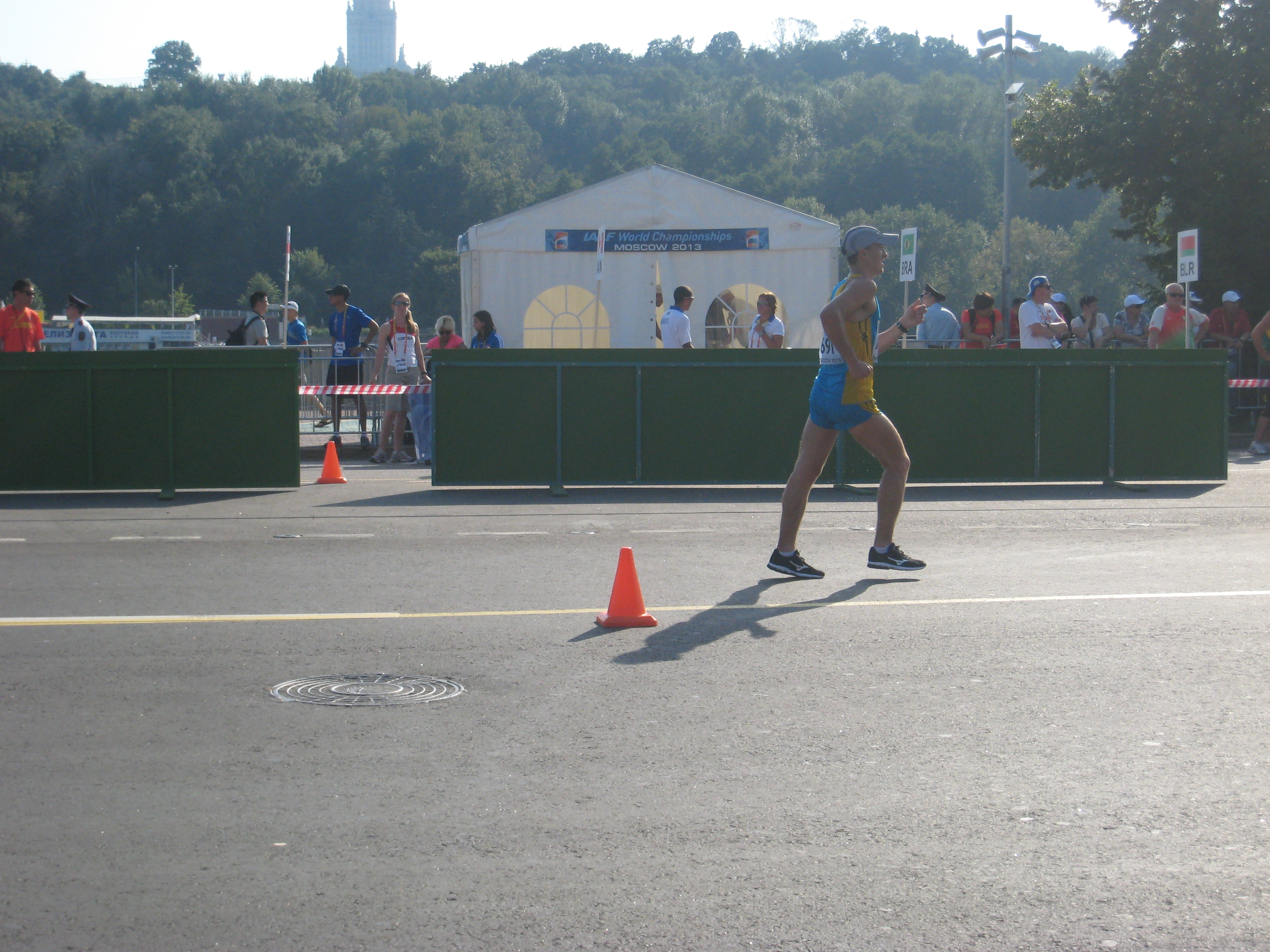 2013 IAAF World Champiomships in Moscow. 20 km walk men. Vitaly Anichkin (KAZ)